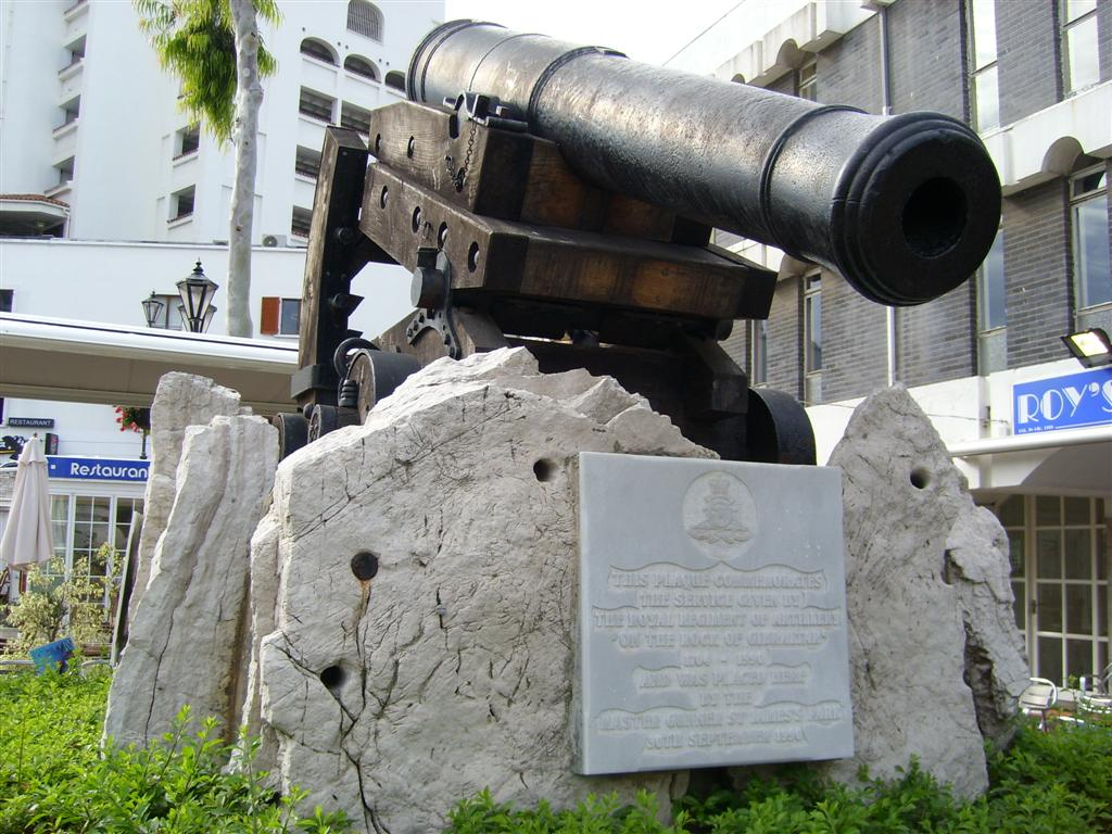 Depression gun carriage developed by Lieutenant Koehler to fire down on te enemy from the Rock of Gibraltar during the Great Siege. Monument to the Royal Regiment of Artillery at Grand Casemates Square, Gibraltar.